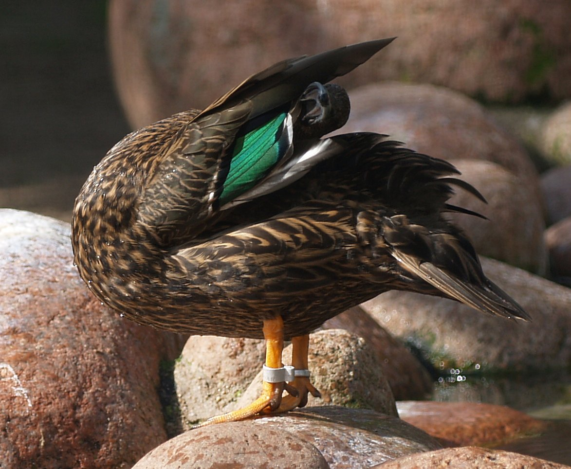 Anas melleri, cleaning its feathers. From Cologne Zoo, Germany